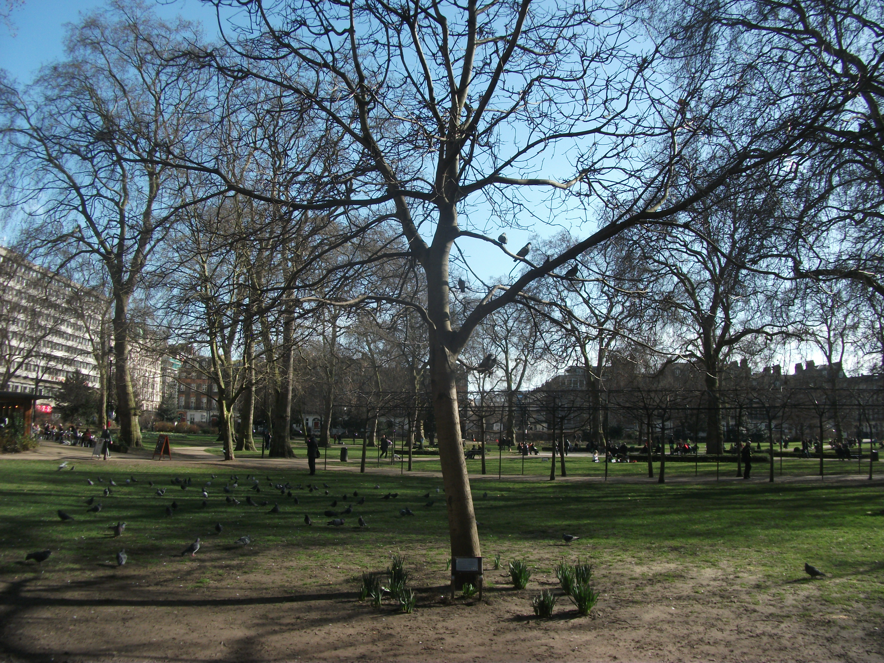 The Krassó Memory in London. This walnut tree was planted in memory of György Krassó on Russel Square.